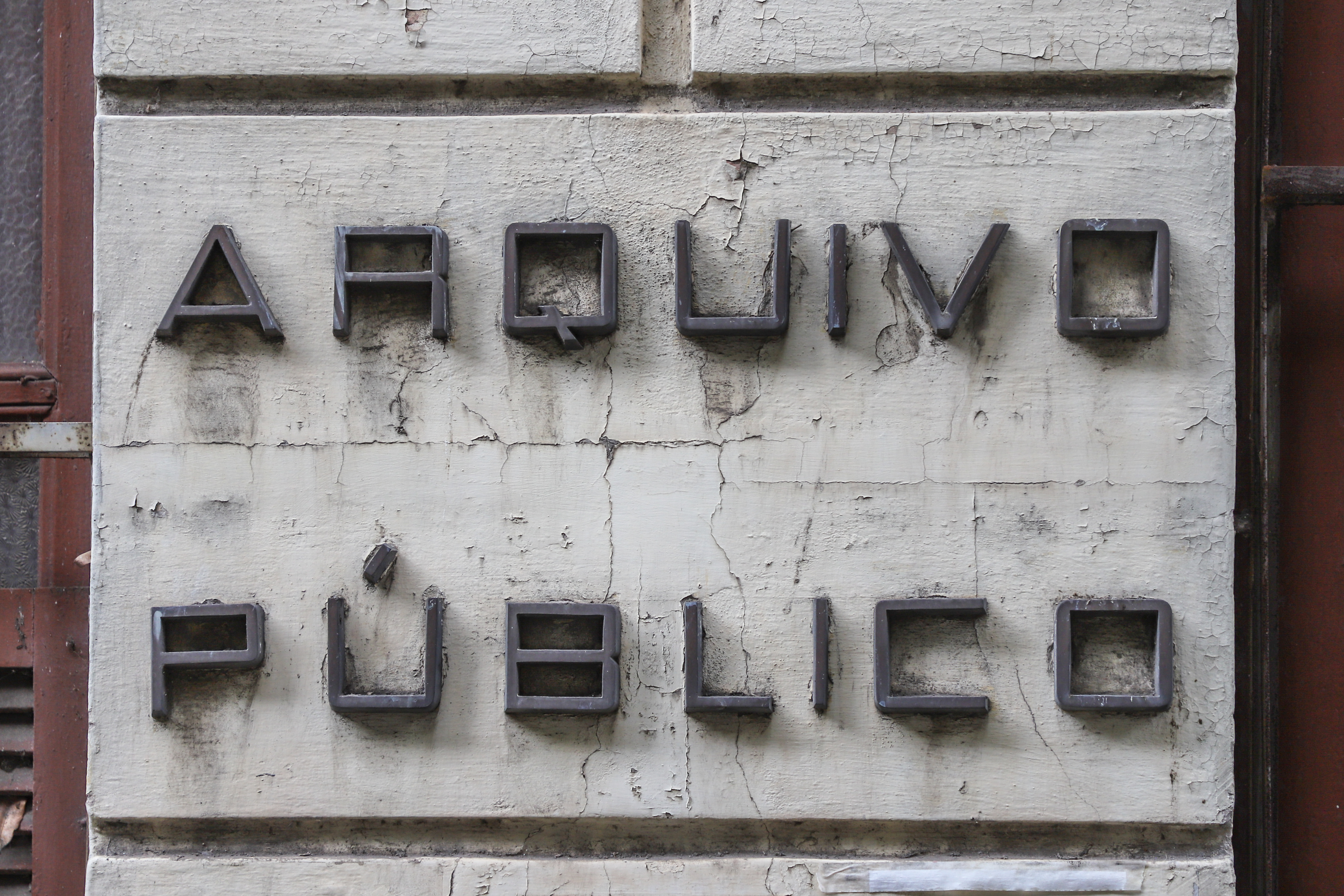 Public Archive of the State of Espírito Santo, Vitória, Espírito Santo, Brazil.